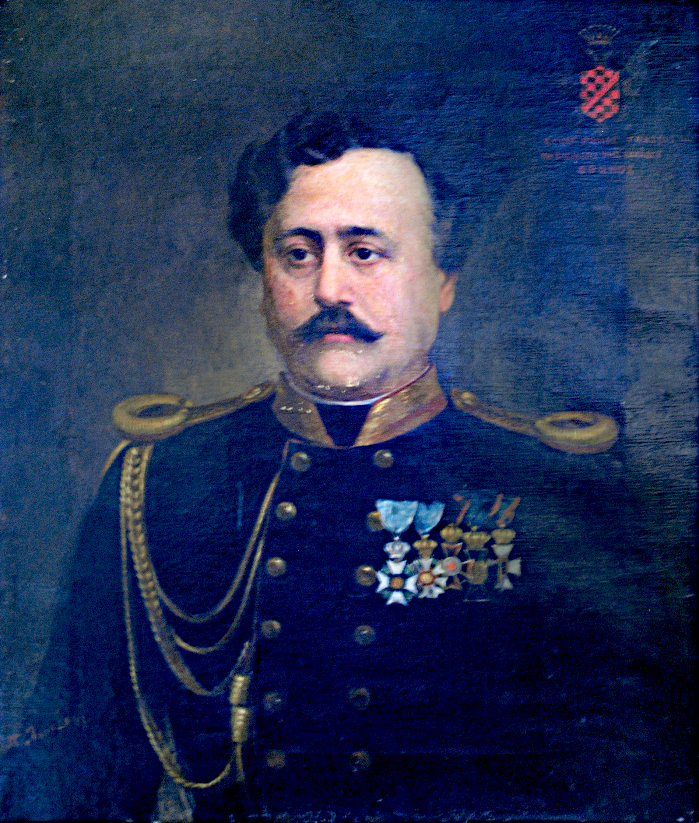 Lebesis Polichronis, Ceasar Roma Portrait, Oil on canvas, 70 x 56 cm, Private collection